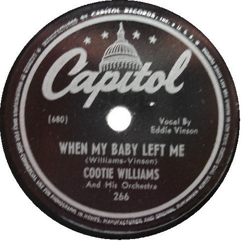 Cootie Williams with Eddie "Cleanhead" Vinson (vocal): When My Baby Left Me